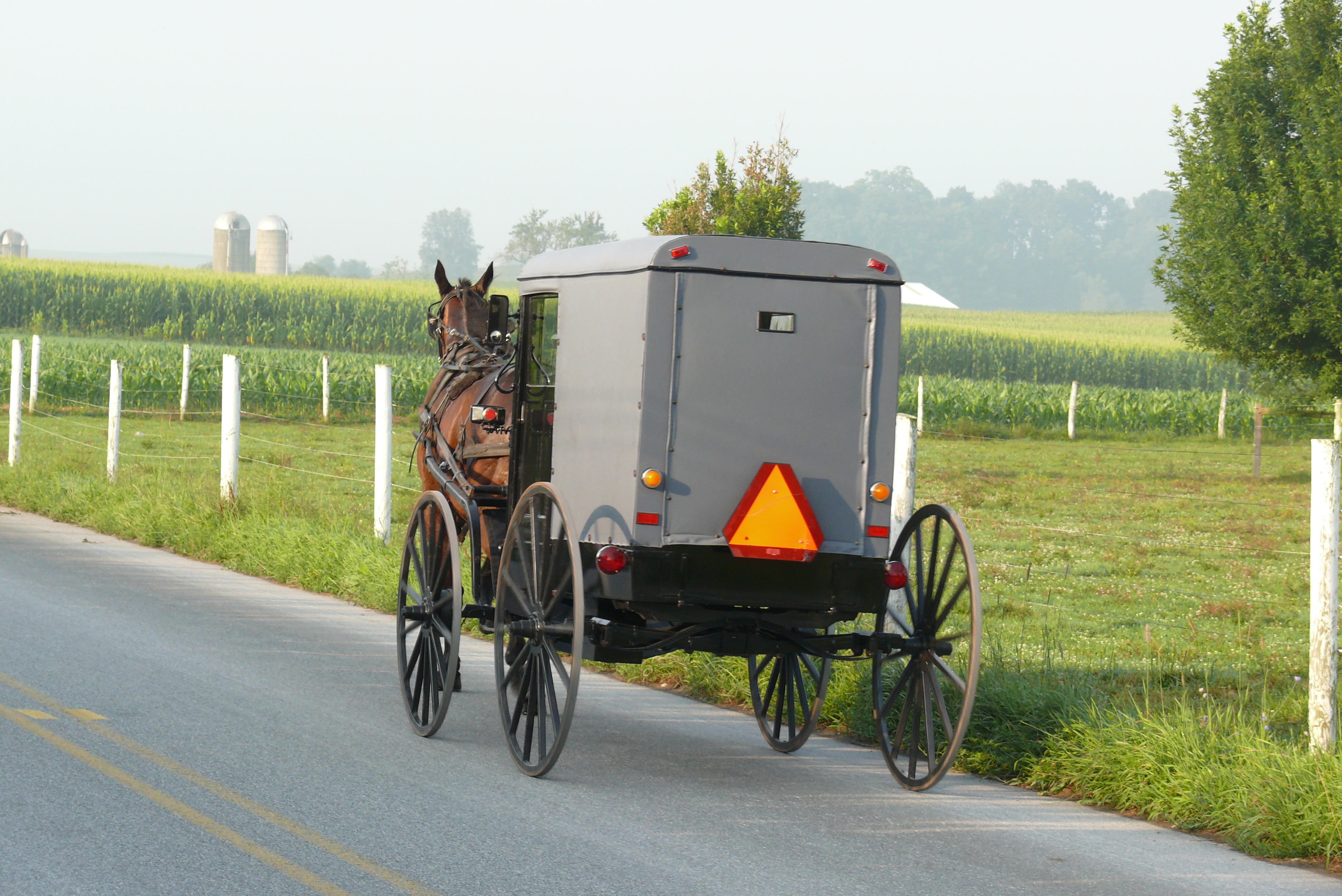 Amish buggy on a road in Lancaster County, Pennsylvania